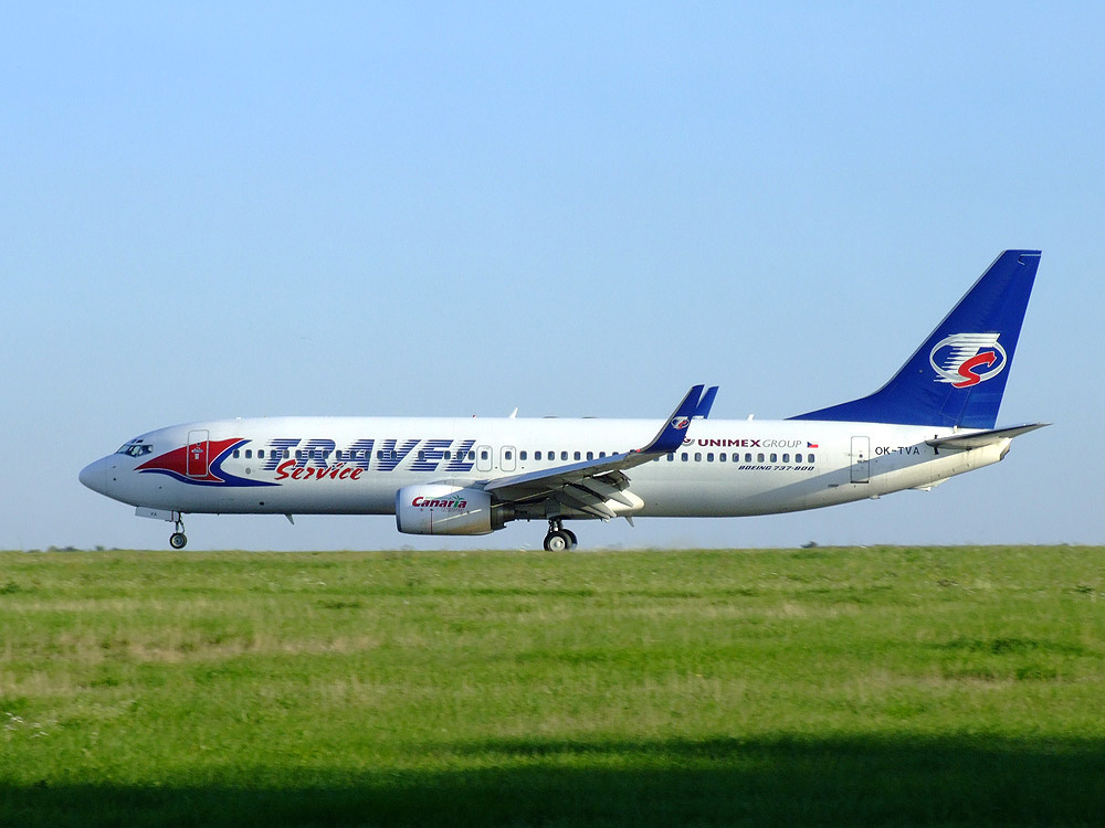 Boeing 737-800 OK-TVA Travel Service